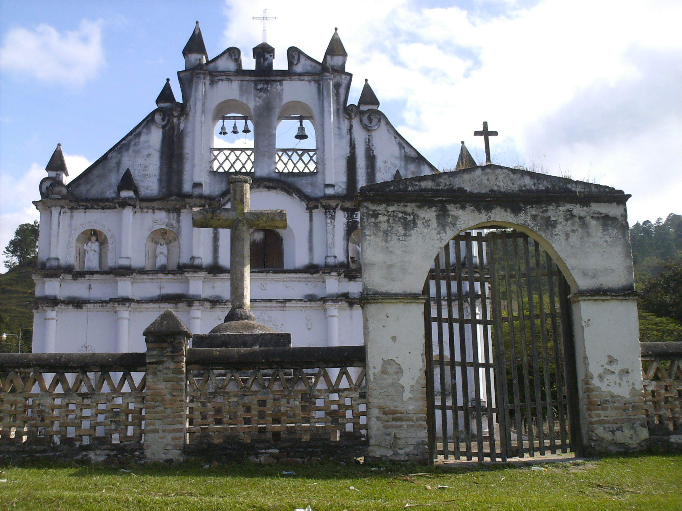 Colonial era Baroque church in La Iguala, a municipality in the Department of Lempira, Honduras.